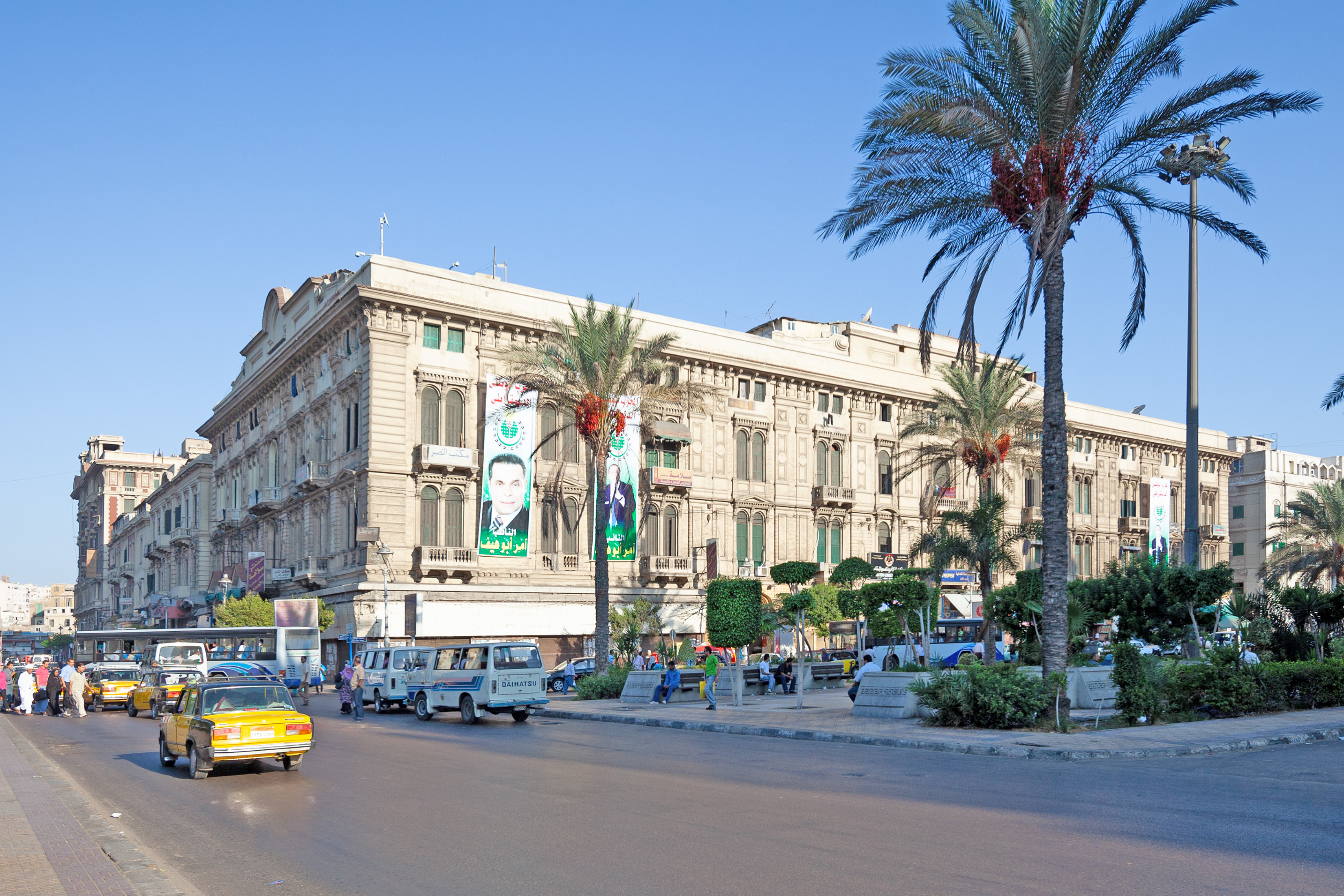 Façade of the Okalle Monferrato, 'Orabi square, Alexandria, Egypt